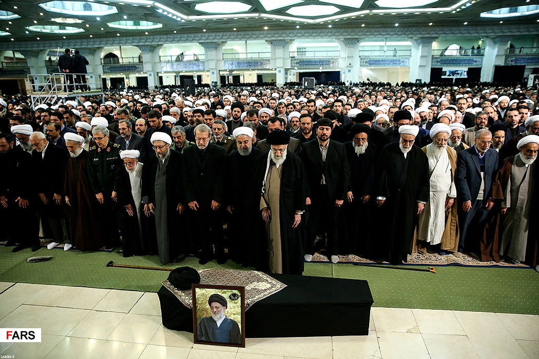 Iranian officials at Mahmoud Hashemi Shahroudi's funeral